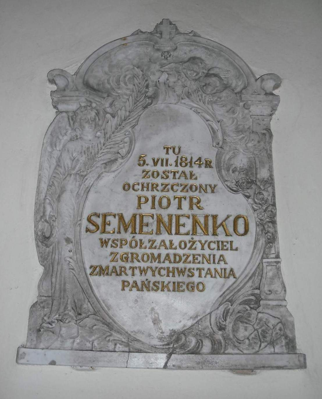 Piotr (Peter) Semenenko baptism place commemoration plaque